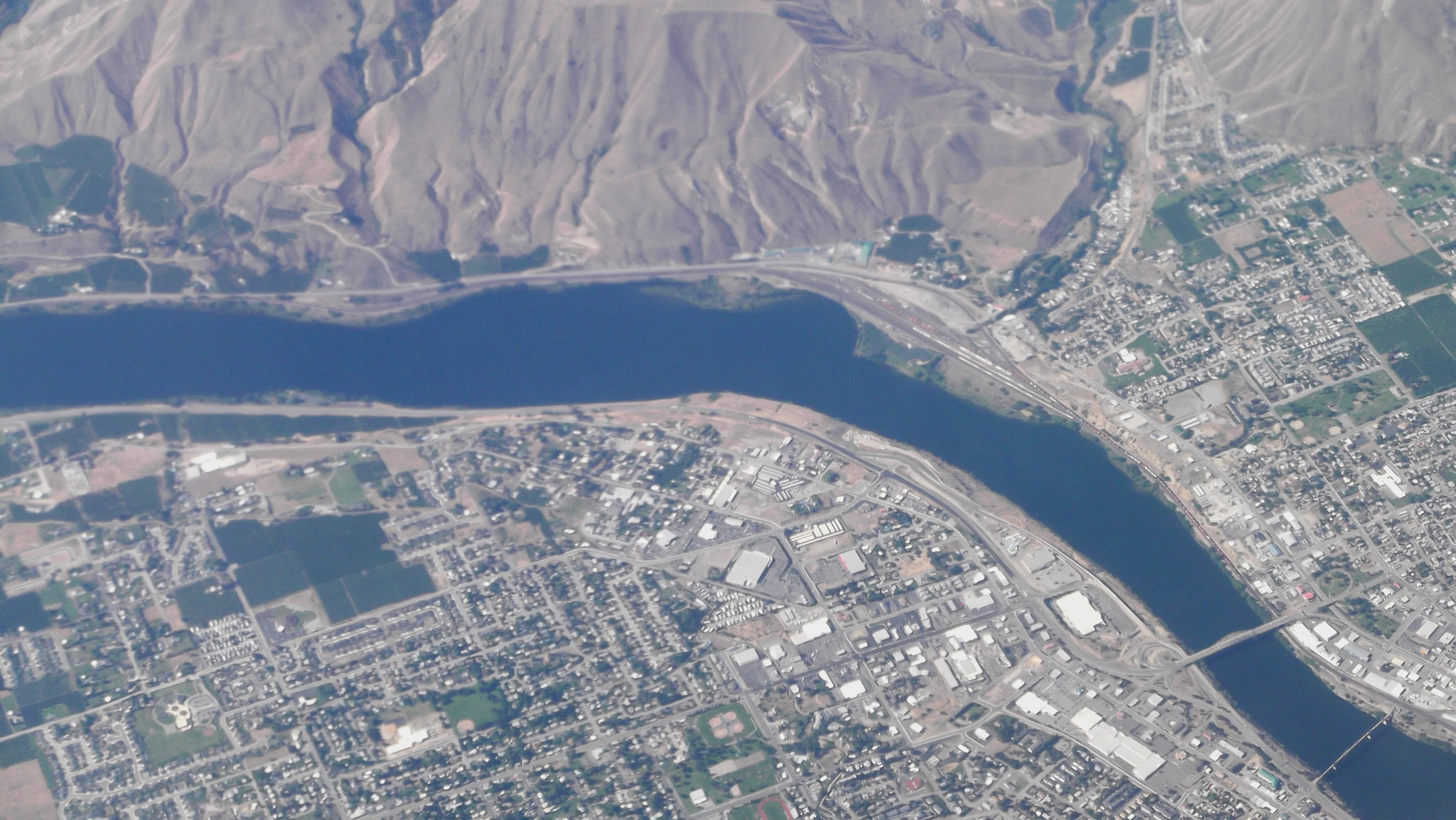 Aerial view of East Wenatchee looking south towards the Columbia River. State Route 285 and the Senator George Sellar Bridge can be seen crossing the river. The BNSF Railway Wenatchee yard can also be seen at center-right.